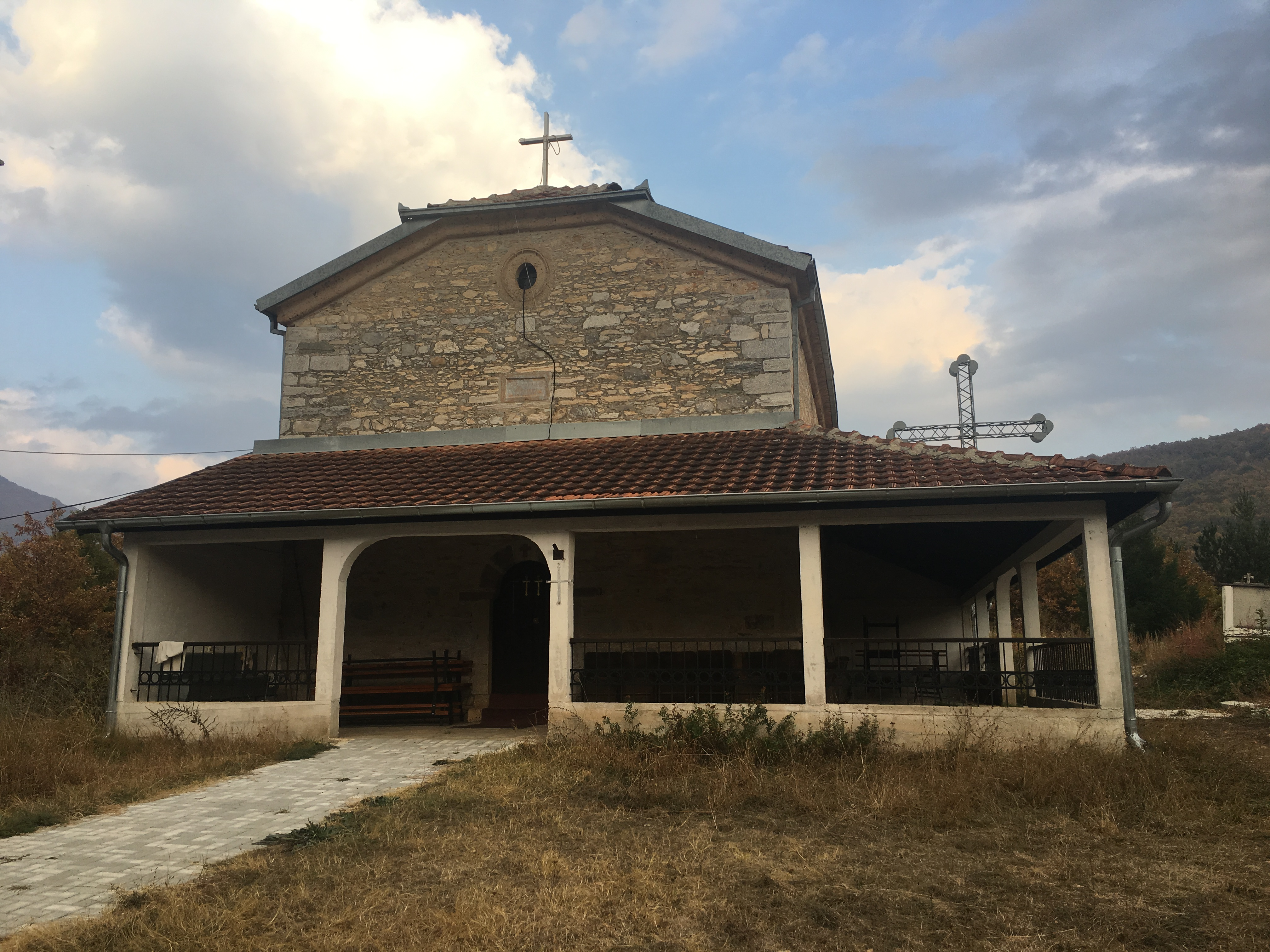 Wikiexpedition to Kopačka